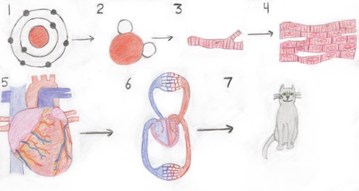 Each level of anatomical organization is more complex than the previous level. The first level of anatomical organization is the simplest, while the last level of is the most complex. 1. The most basic level of anatomical organization is the atom. 2. Molecules are made up of atoms. 3. Many different molecules make up a cell. (Shown cell is a cardiac muscle cell) 4. Cells make up tissue. (Shown cell is cardiac muscle) 5. Tissues make up organs. (Shown organ is a heart) 6. Organs working together make up an organ system. (Shown organ system is a circulatory system) 7.Organ systems make up an individual. (Shown organism is a domestic cat)